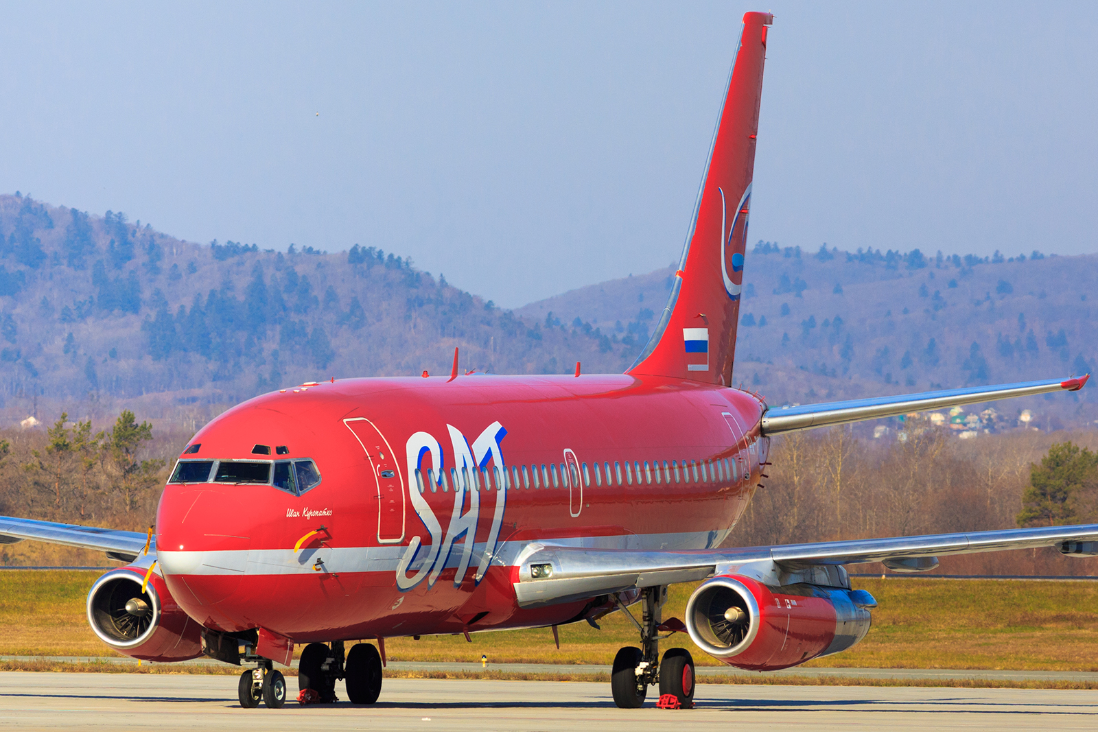 Boeing 737-200 of SAT Airlines at Vladivostok Airport